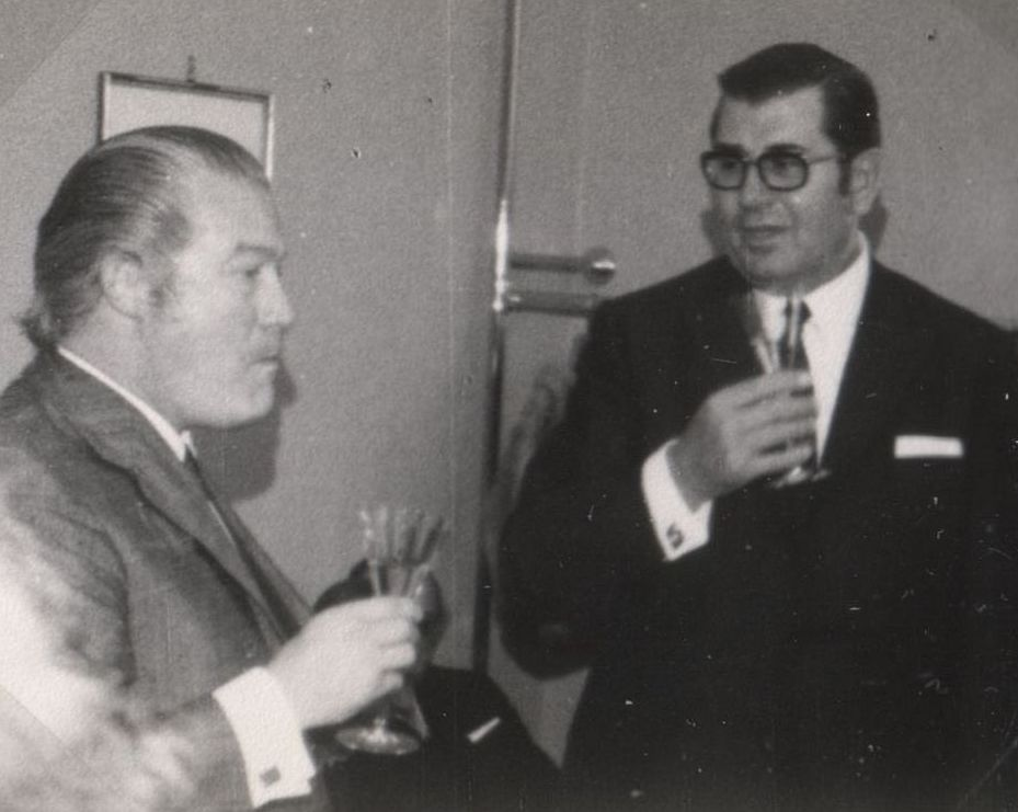 One of the photographs taken around or relating to the fur trade center Niddastrasse, Frankfurt am Main, Germany.